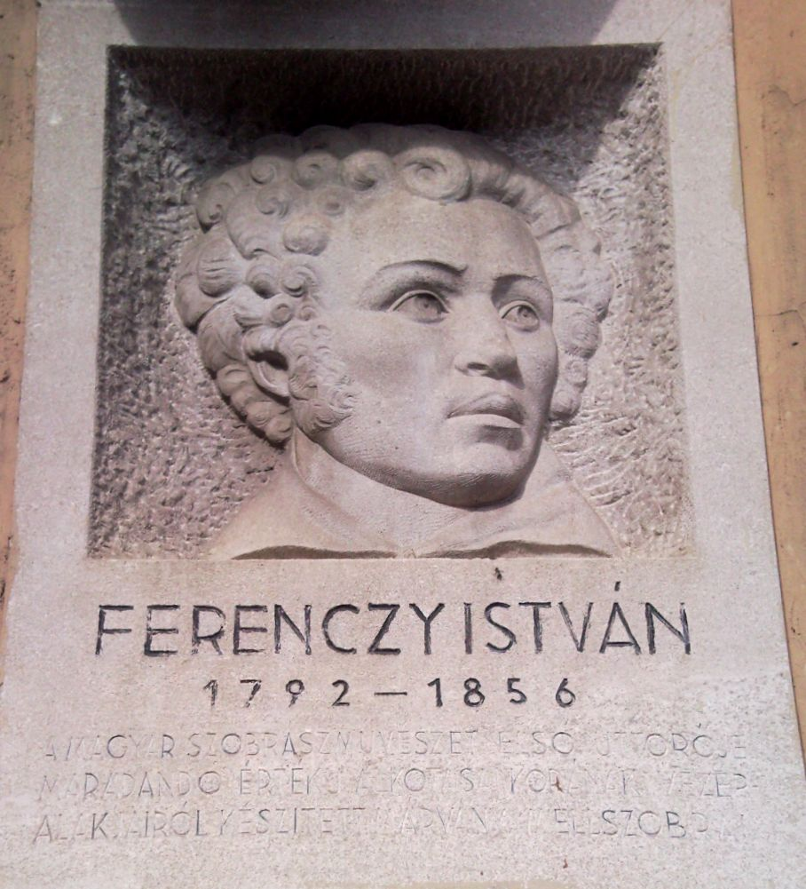 István Ferenczy commemorative plaque in Budapest District V, Magyar Street No 14.